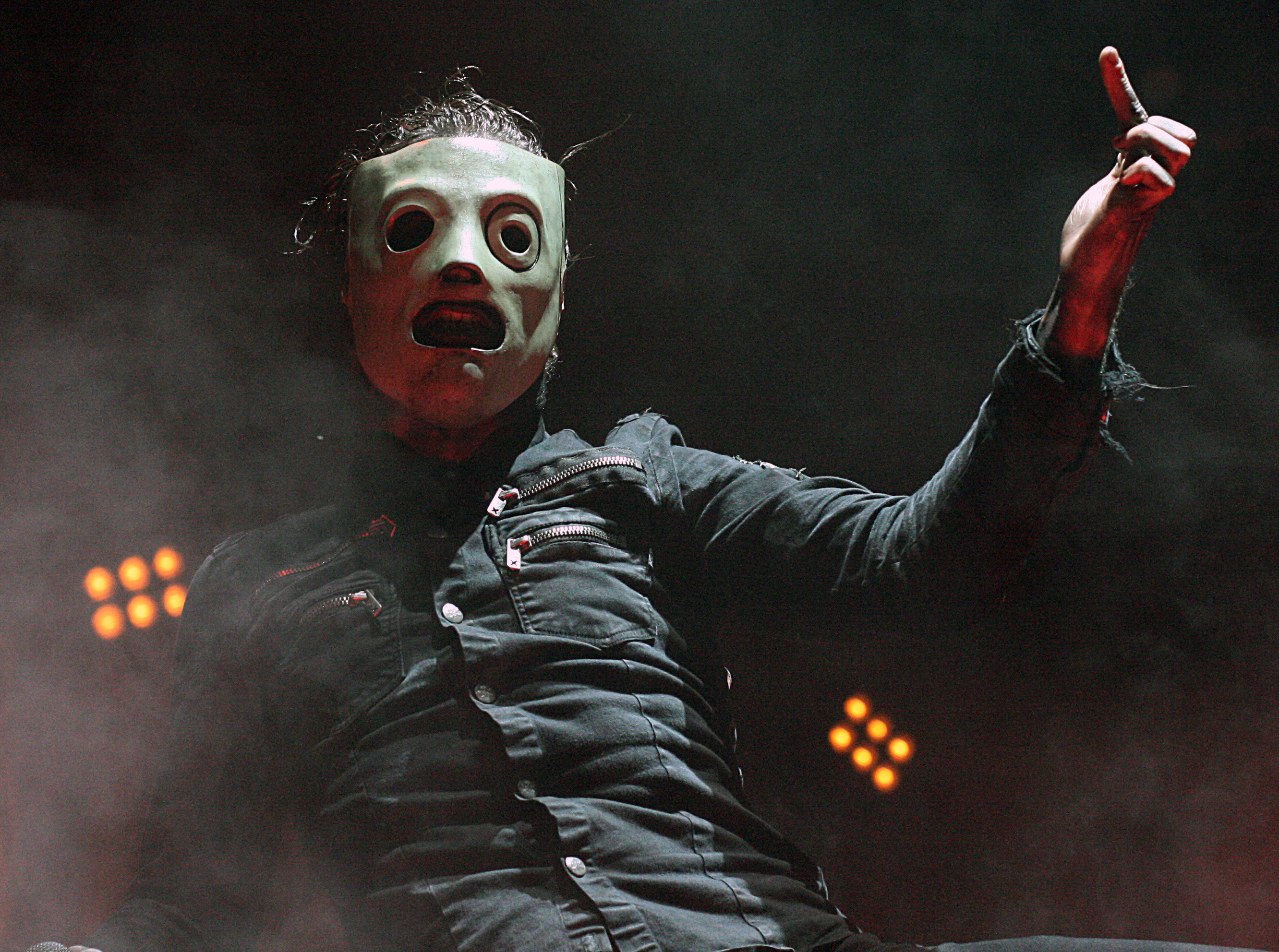 Corey Taylor of Slipknot performing on the Mayhem Festival 2008.